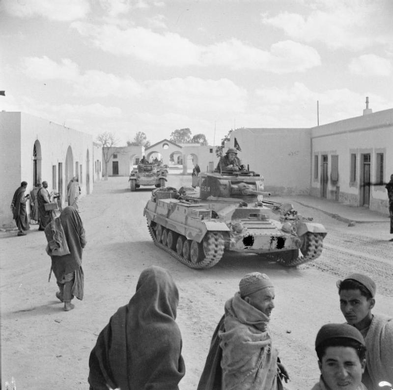 The British Army in North Africa 1943 Valentine tanks entering the town of Ben-Gardane, 20 miles into Tunisia, 15 February 1943.